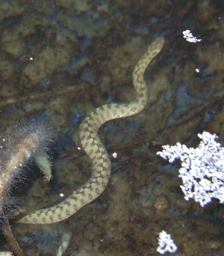 Natrix maura, juvenile snake in water, Castelltallat Catalonia